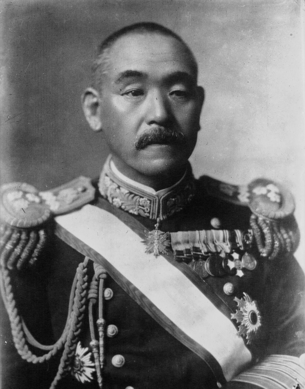 Japanese admiral Kantarō Suzuki (1868-1948).